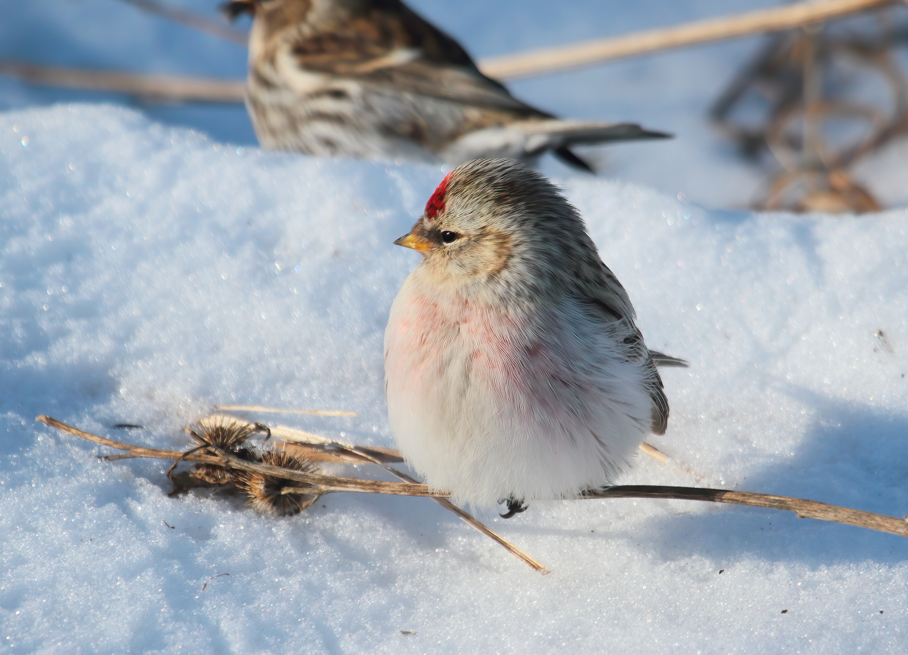 Arctic Redpoll, Cap Tourmente National Wildlife Area, Quebec, Canada.